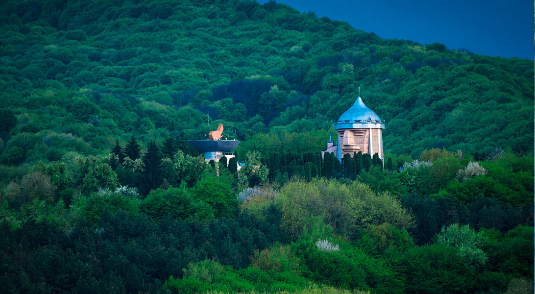 Sosruko restaurant in the city of Nalchik